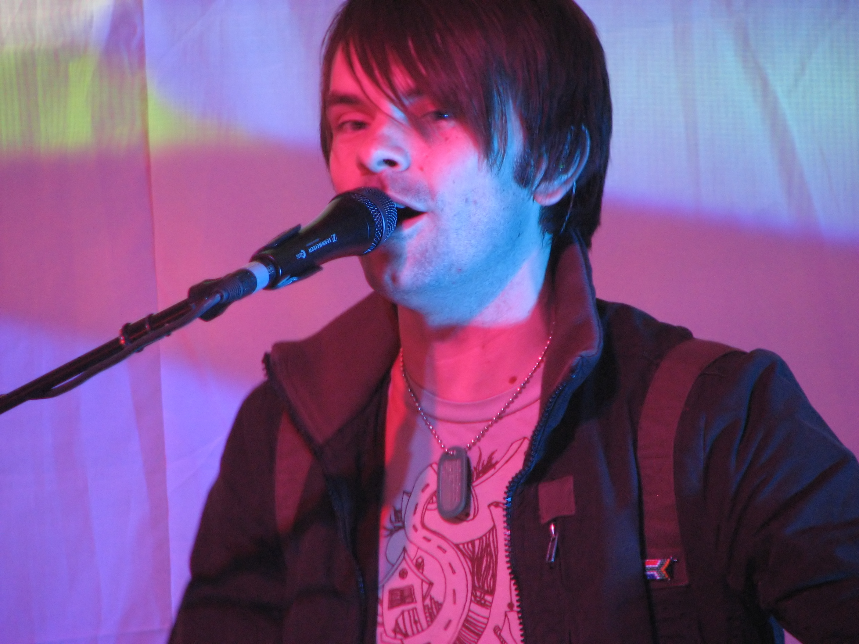 Jars of Clay band member, Charlie Lowell, performing in 2007